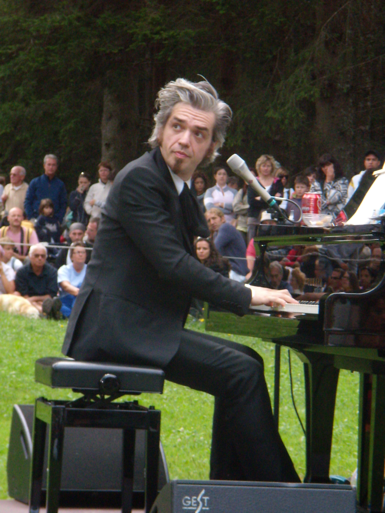 Morgan live concert at Suoni delle Dolomiti, Trento - Italy